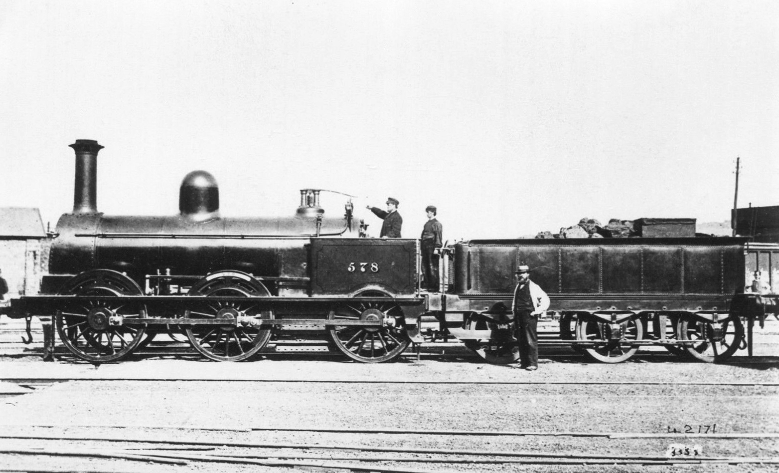 Photograph of LNWR engine No. 578 DX Class